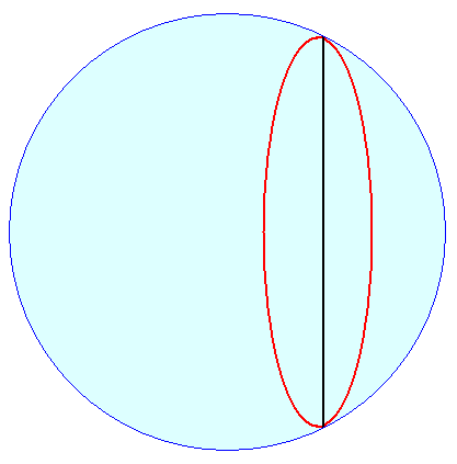 Hypercycle in hyperbolic geometry (Klein model)